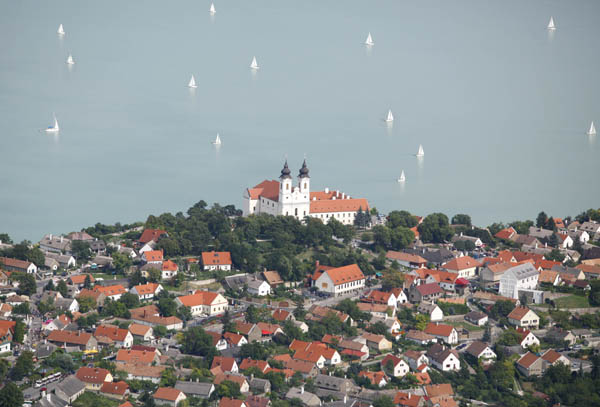 Tihany, Hungary, Veszprém county, aerial photography